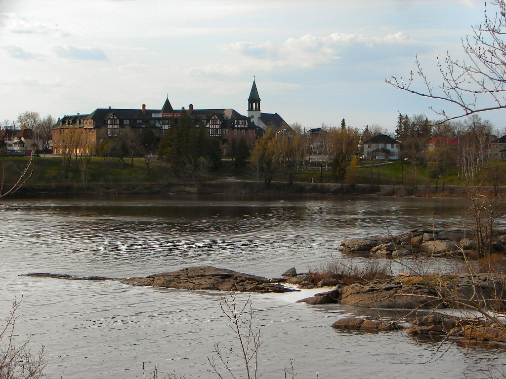 Kapuskasing Inn and the Kapuskasing River in Kapuskasing, Ontario, Canada (demolished in 2008, for new skyline see file:Kapuskasing 2009-07.JPG).